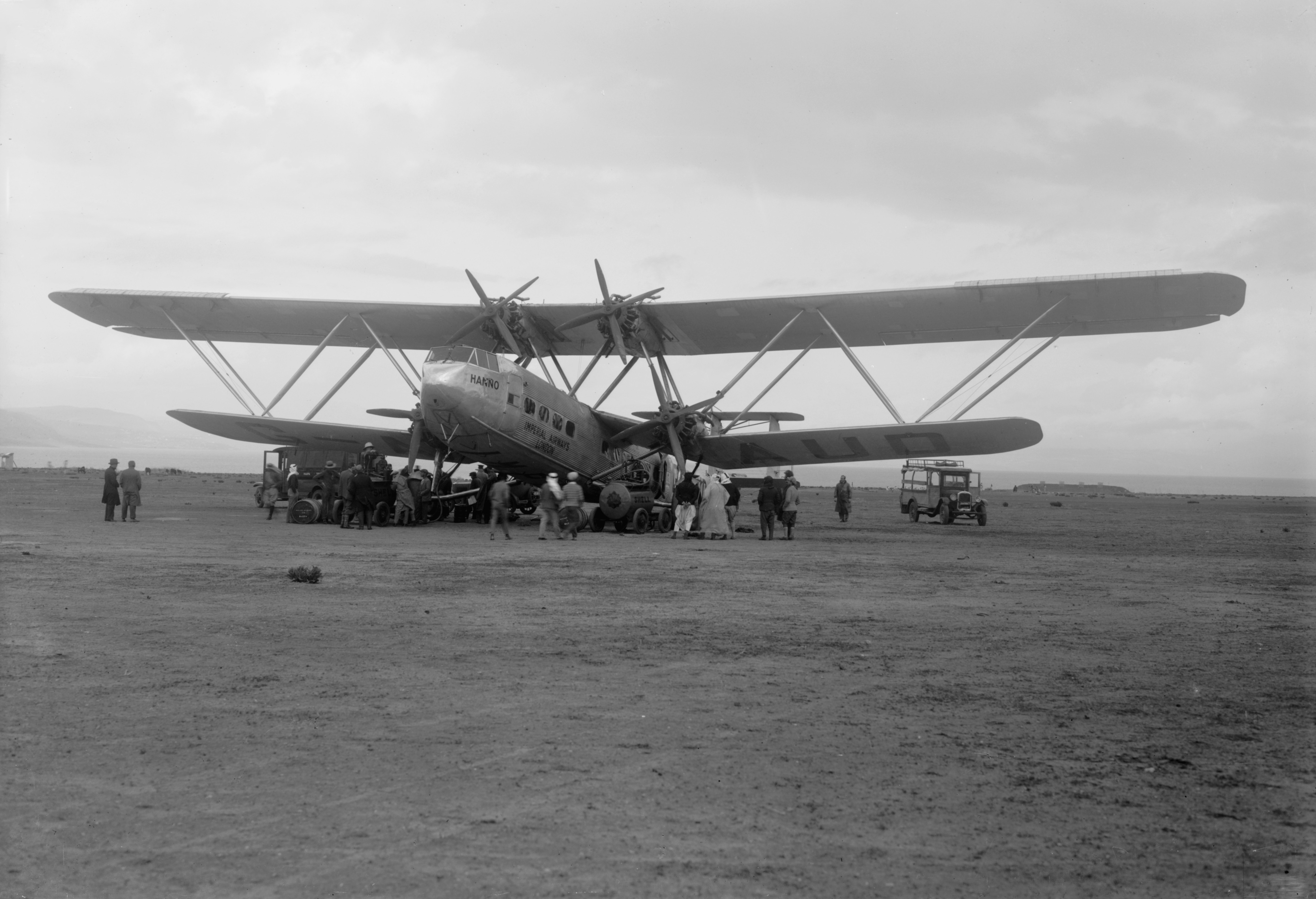 Handley Page H.P.42, british four-engined long-range biplane airliner of the Imperial Airways, at Samakh , October 1931.Original description: "Air views of Palestine. Aircrafts etc. of the Imperial Airways Ltd., on the Sea of Galilee and at Semakh. Aircraft "Hanno" at Semakh. Awaiting departure."